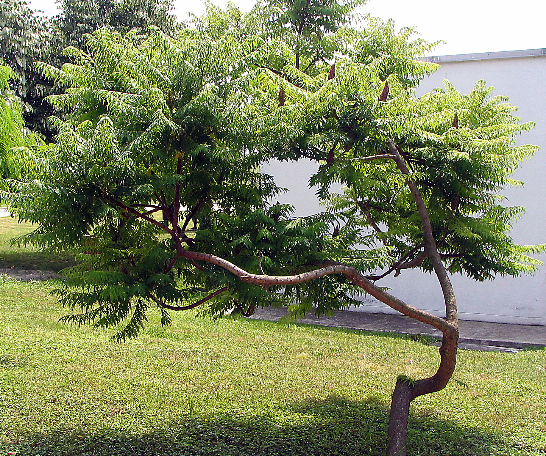 Rhus typhina 'Laciniata' habitus